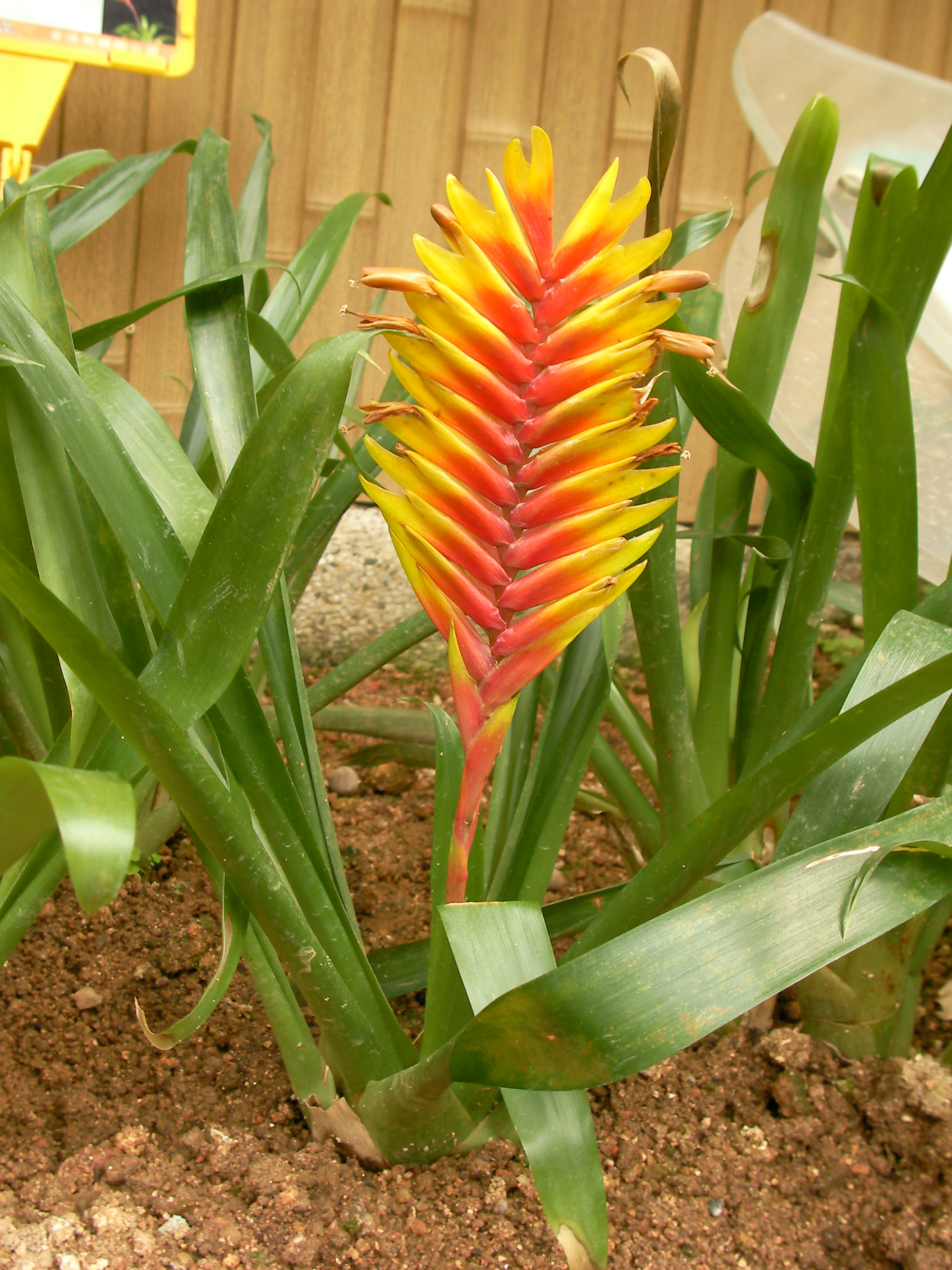 Vriesea carinata taken in Hong Kong Zoological and Botanical Gardens